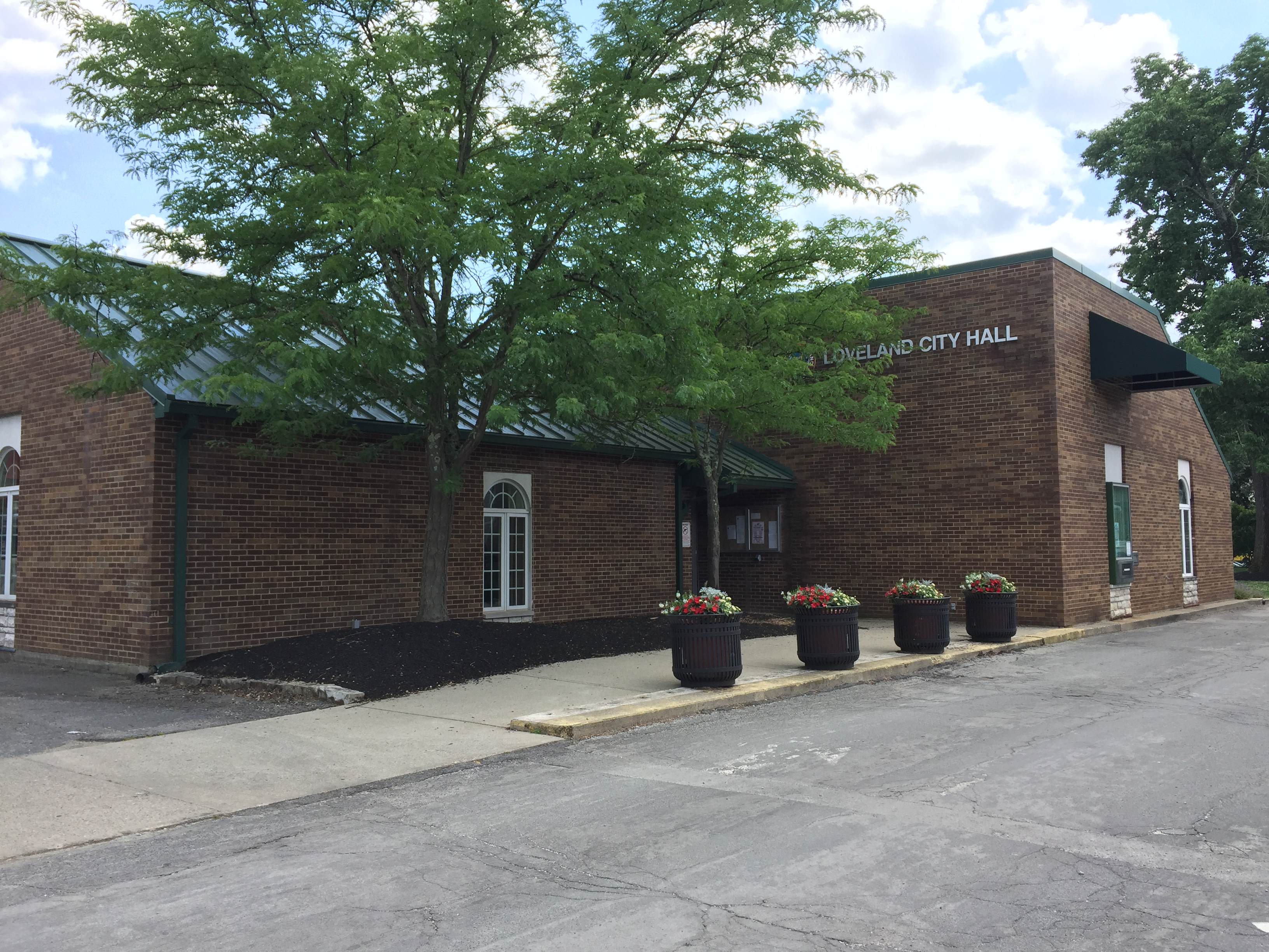 Loveland, Ohio City Hall in 2019